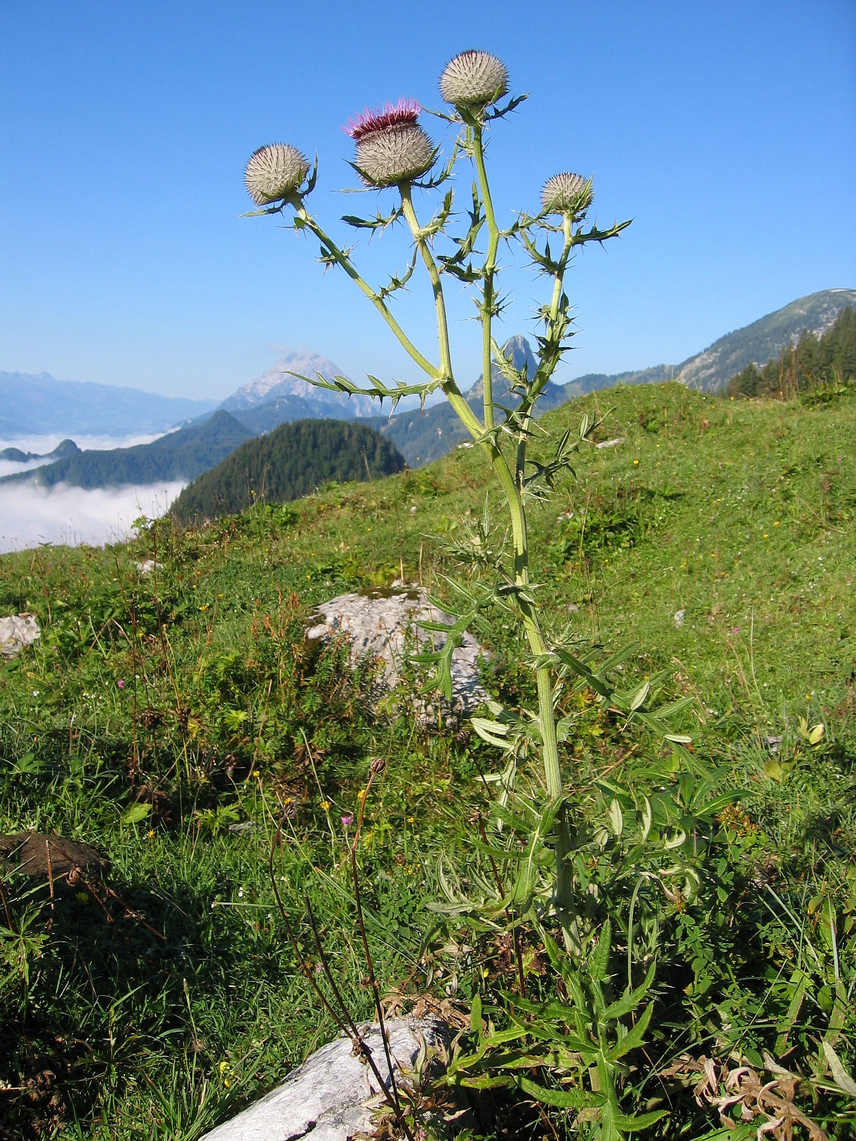 Cirsium eriophorum Hinteregger Alm, Styria, Austria